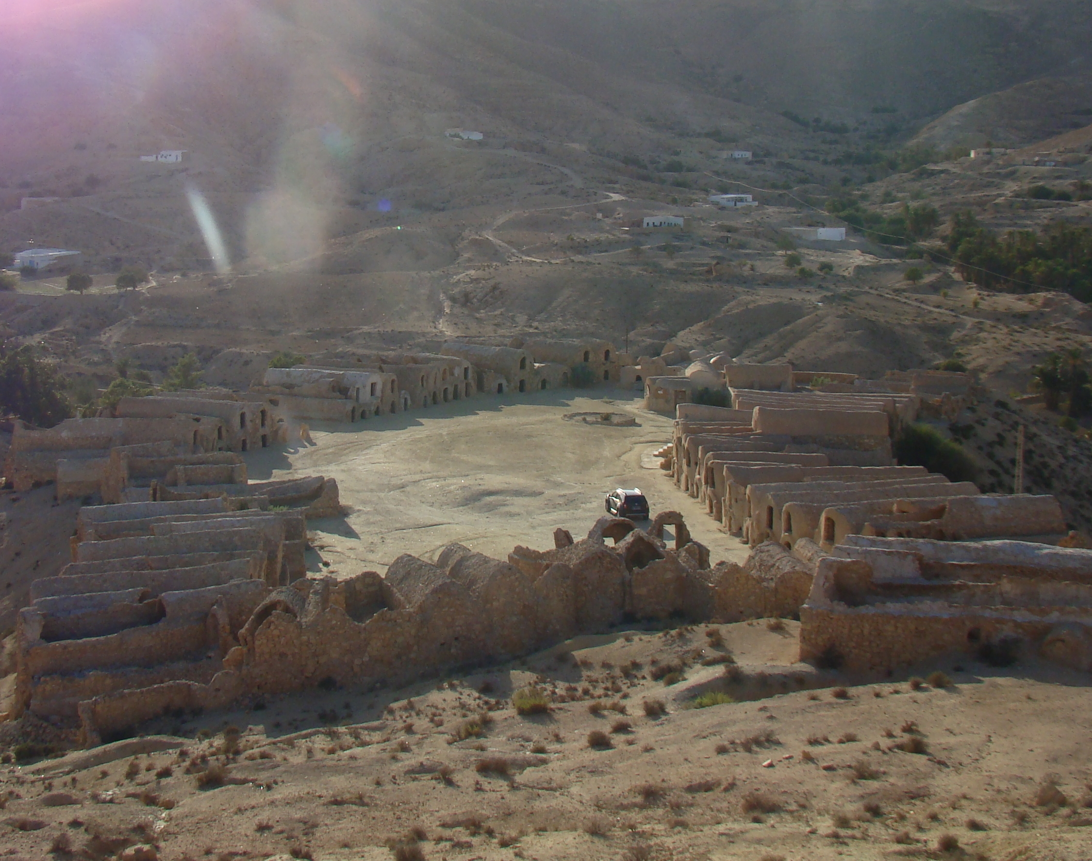 View of Ksar Hallouf, Tunisia from above.